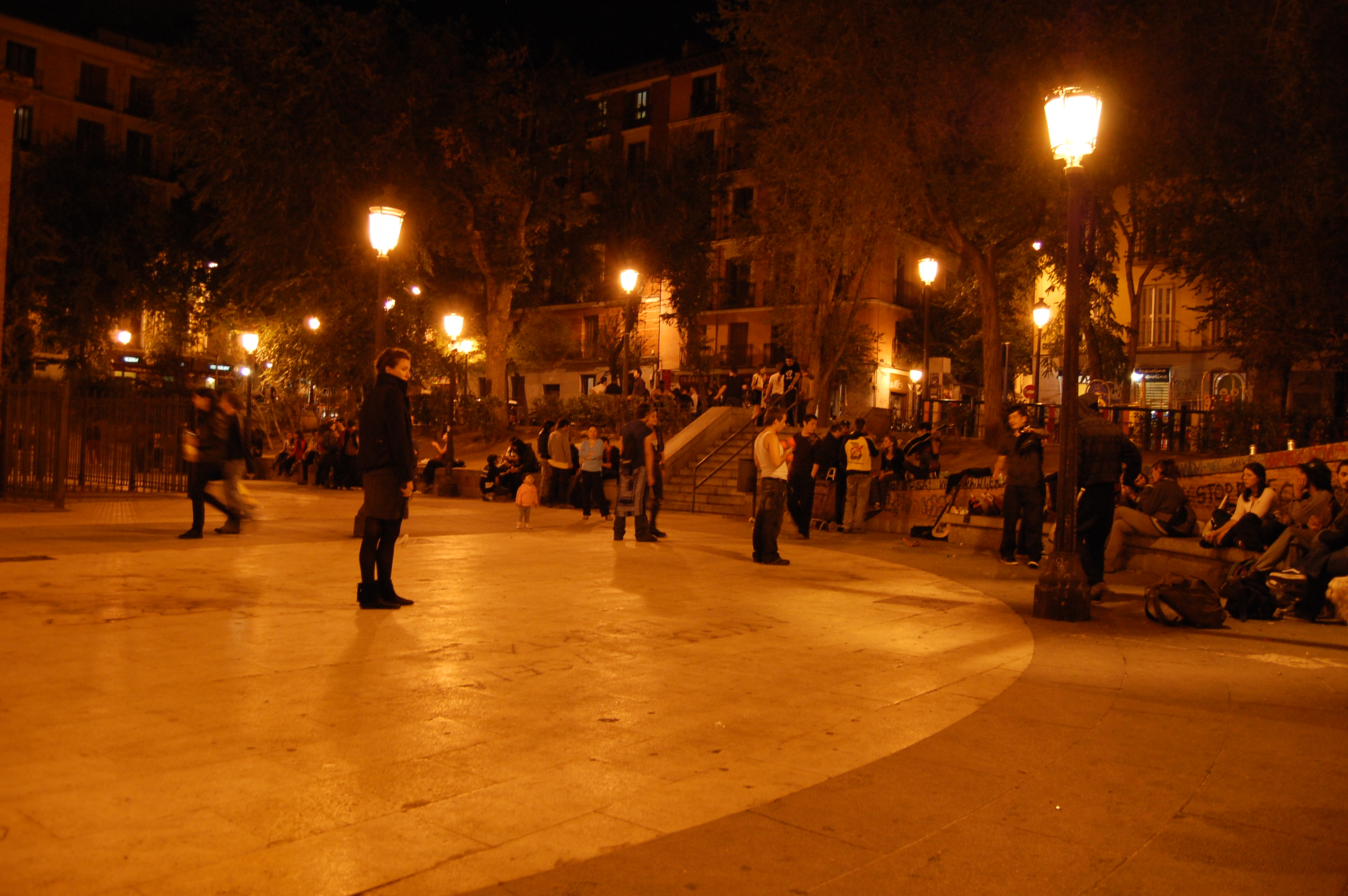 Plaza dos de Mayo, Malasana, Madrid